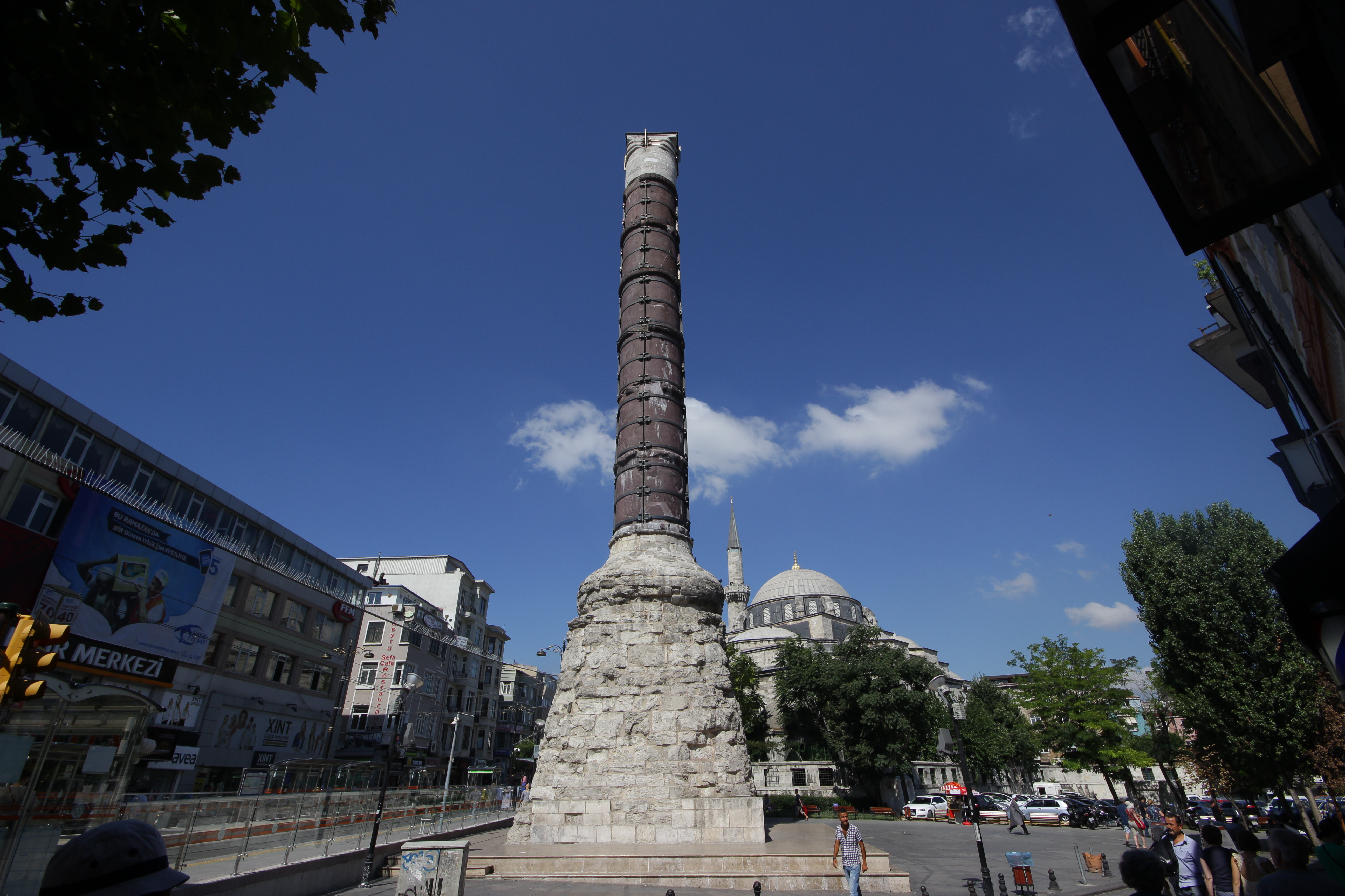 The Column of Constantine seen from south-east.